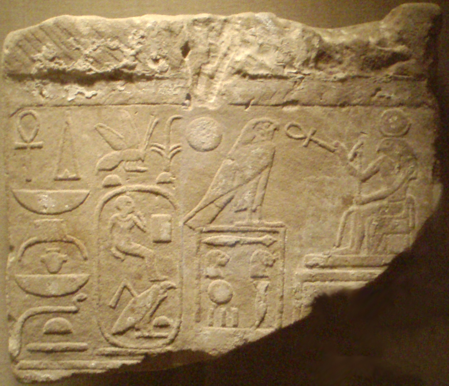 Relief fragment bearing the names of the pharaoh Psammuthis.